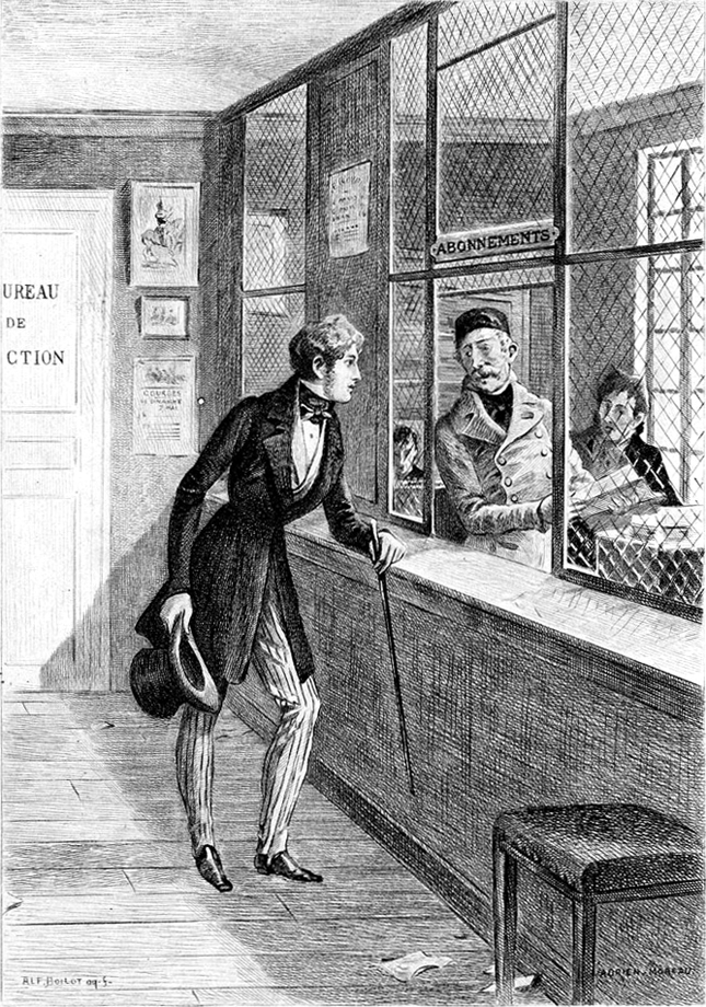 Title page of Honoré de Balzac's Lost Illusions, In Finot's Office (1839).